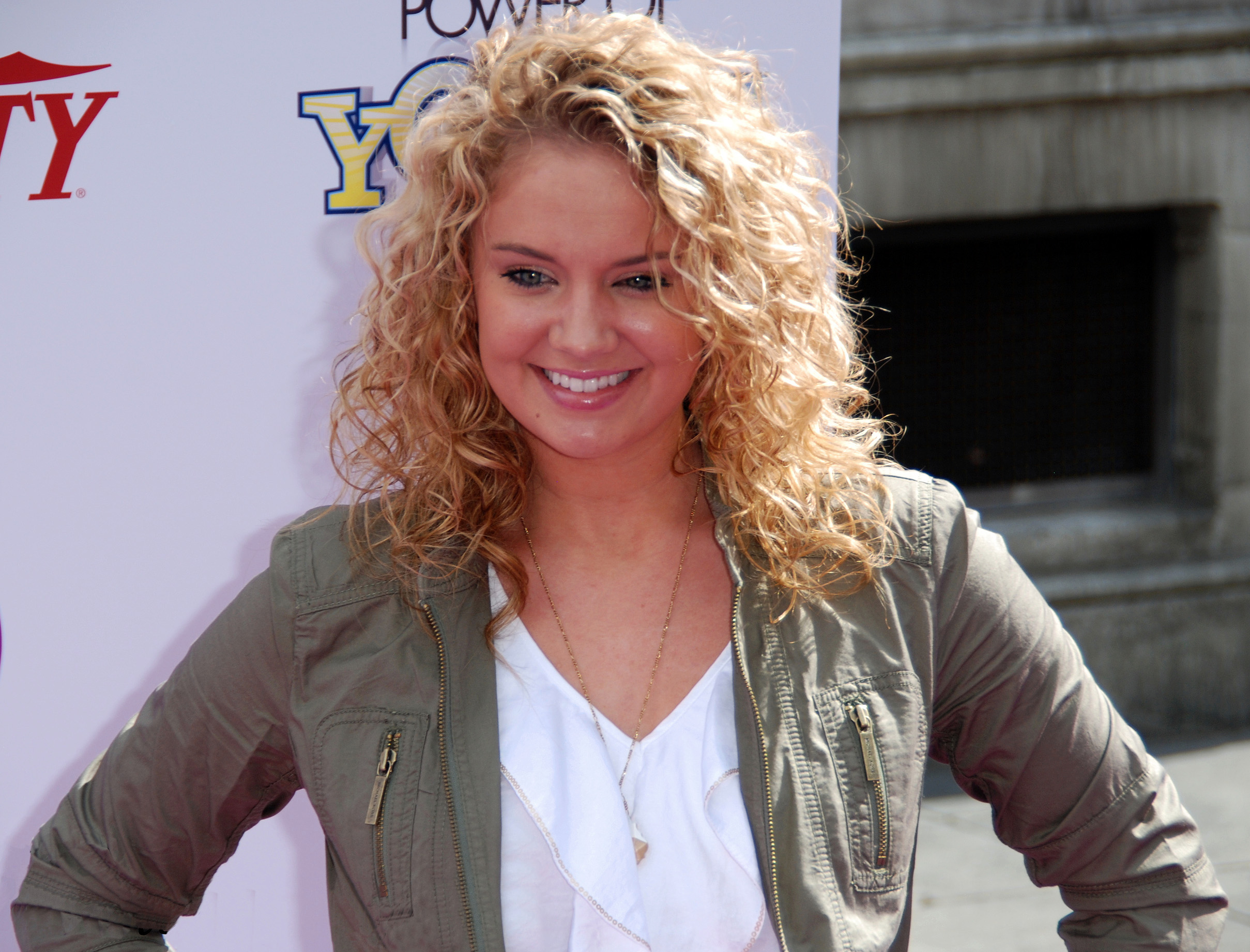 Actress Tiffany Thornton attends the Variety's Power of Youth Event at Paramount Studios in Hollywood, CA, Oct 24, 2010